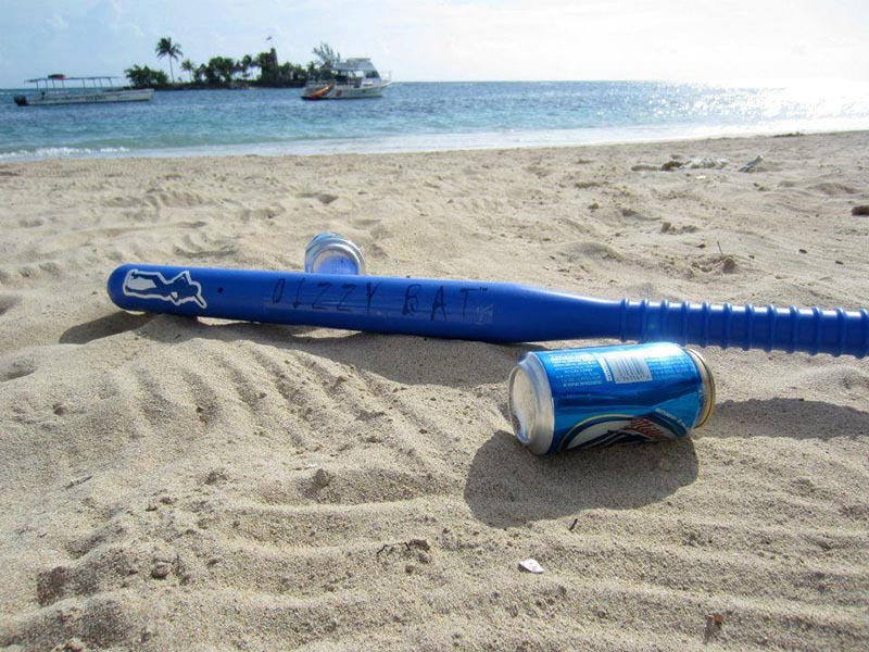 This picture depicts a commercially available dizzy bat